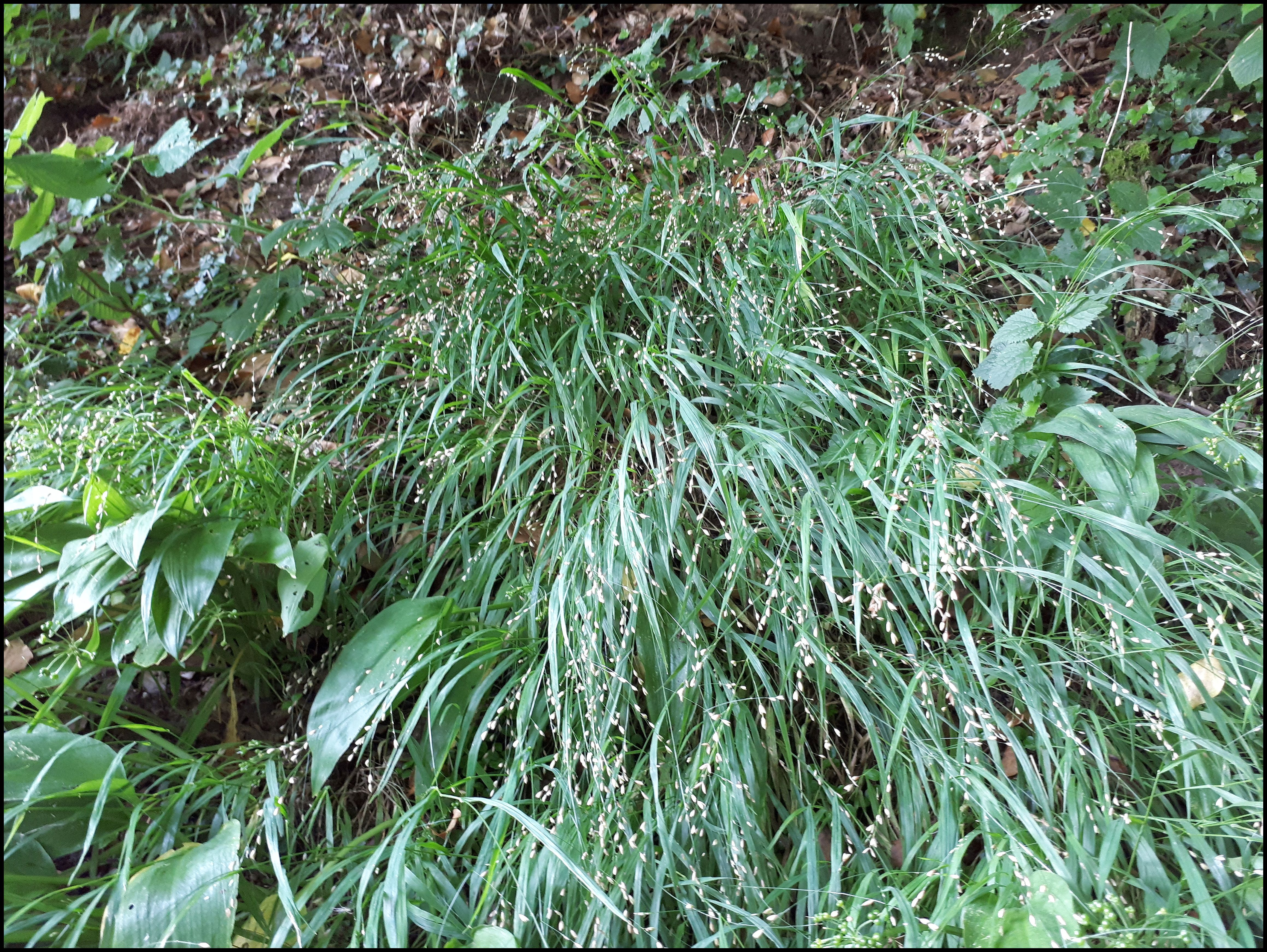 species of grass